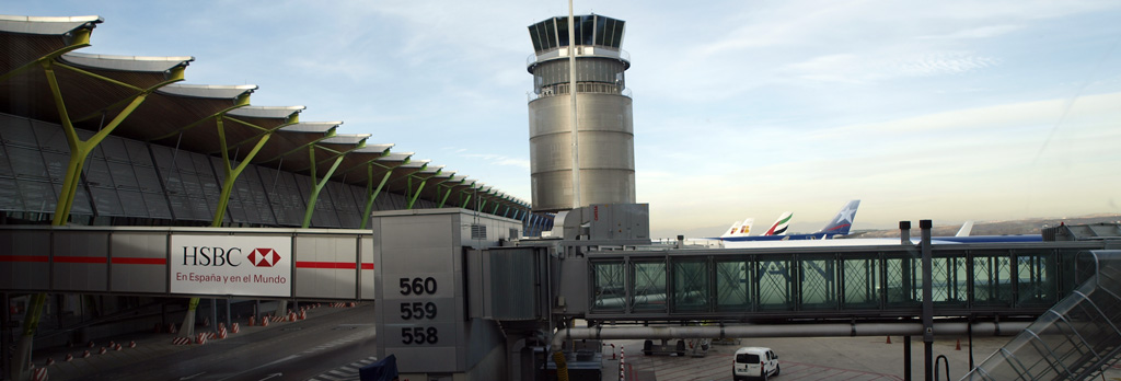 Madrid-Barajas T4S (satellite terminal)